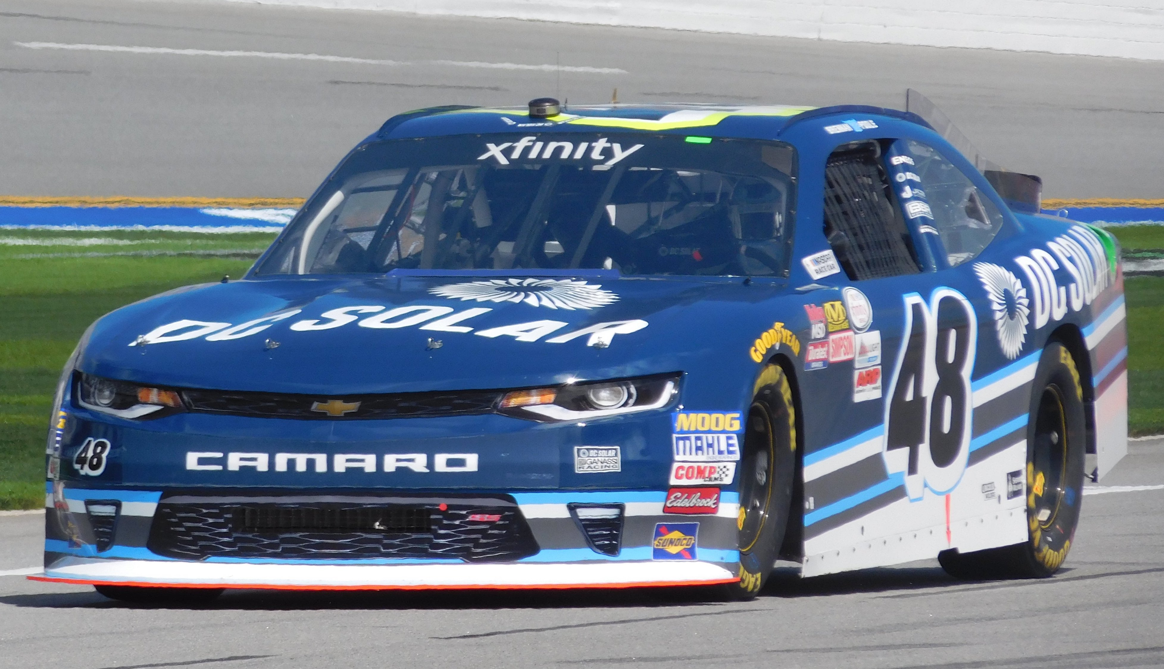 Brennan Poole's No. 48 DC Solar Chevrolet at Daytona International Speedway in 2017